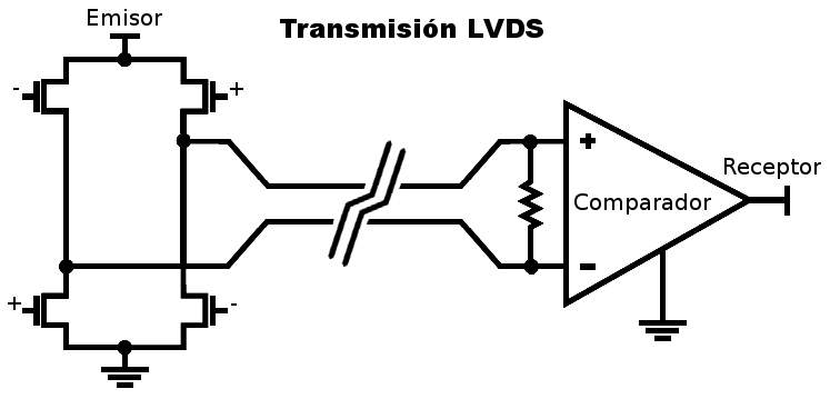 Diagram of LVDS communication